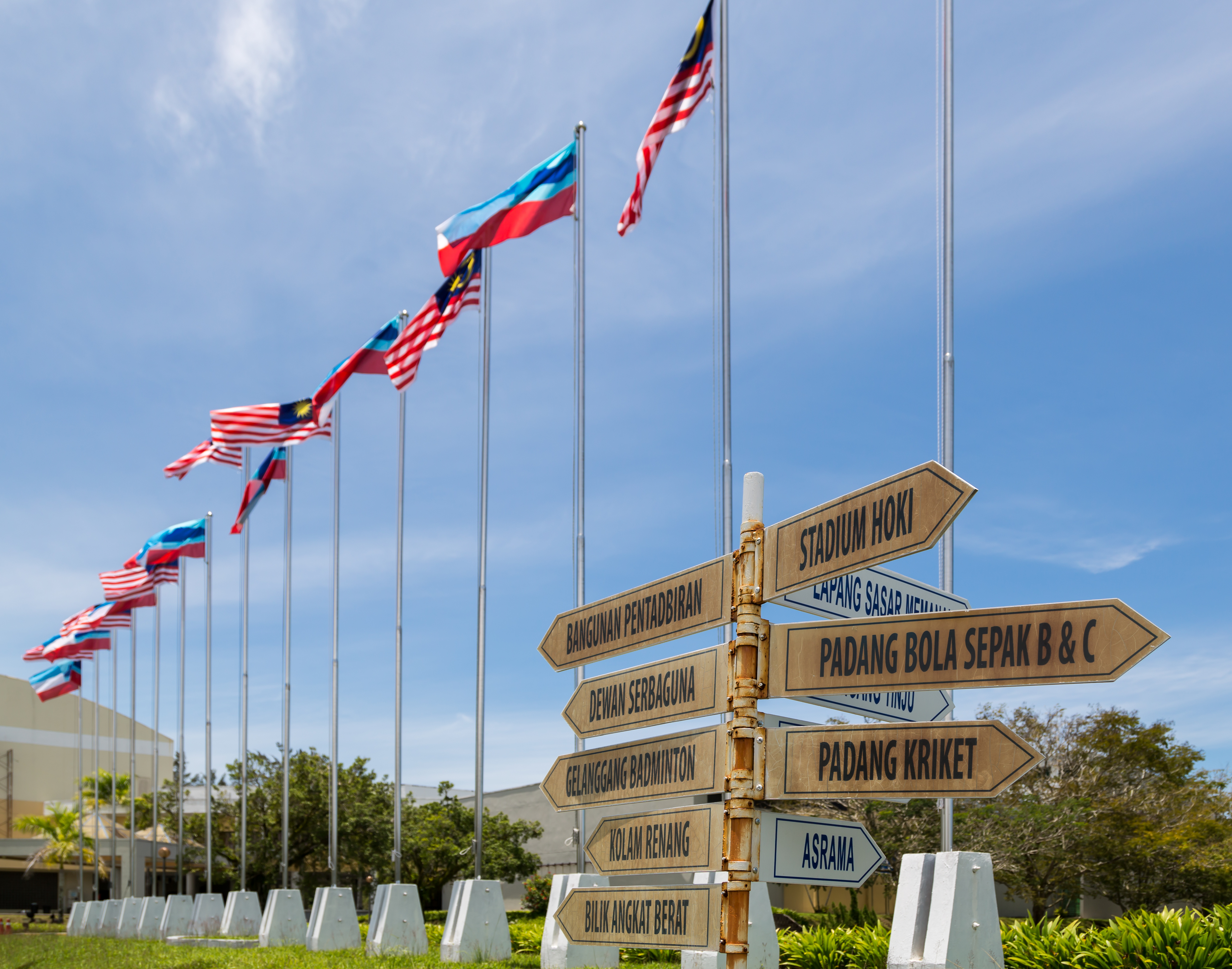 Sandakan, Sabah: Sandakan Sports Complex